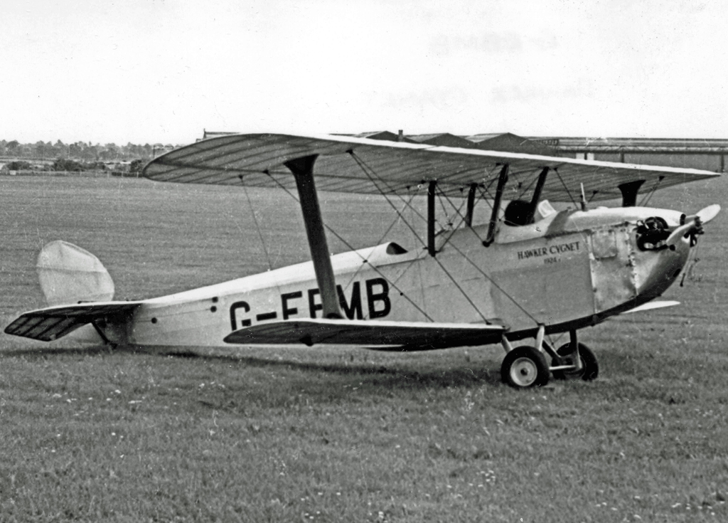 Hawker Cygnet G-EBMB attending an air show at Coventry Airport in 1954